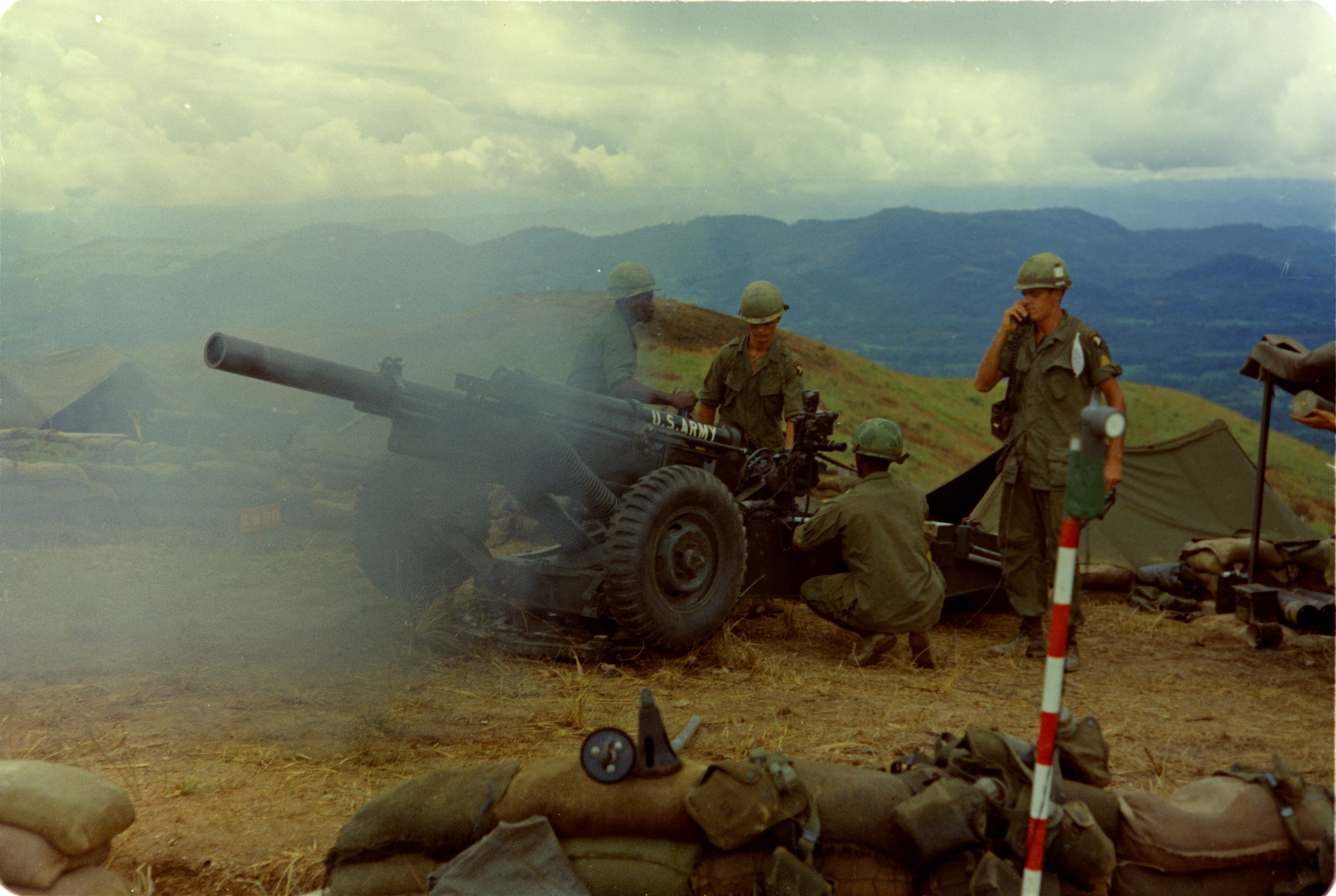 Operation "Wheeler." Tam Ky, Vietnam. Members of Battery B, 2nd Battalion, 320th Artillery, 1st Brigade, 101st Airborne Division, fire a 105mm howitzer at an enemy target.